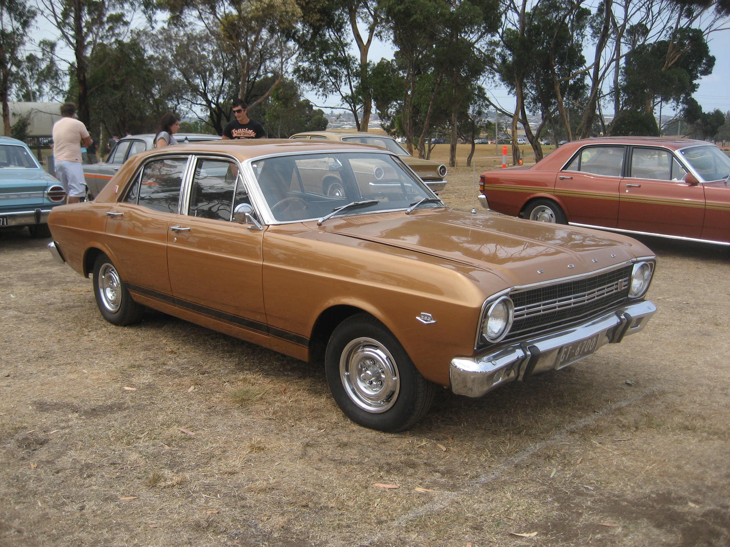 Built in 1967, only in GT Gold 596 made Engine; 225 bhp 289 V8